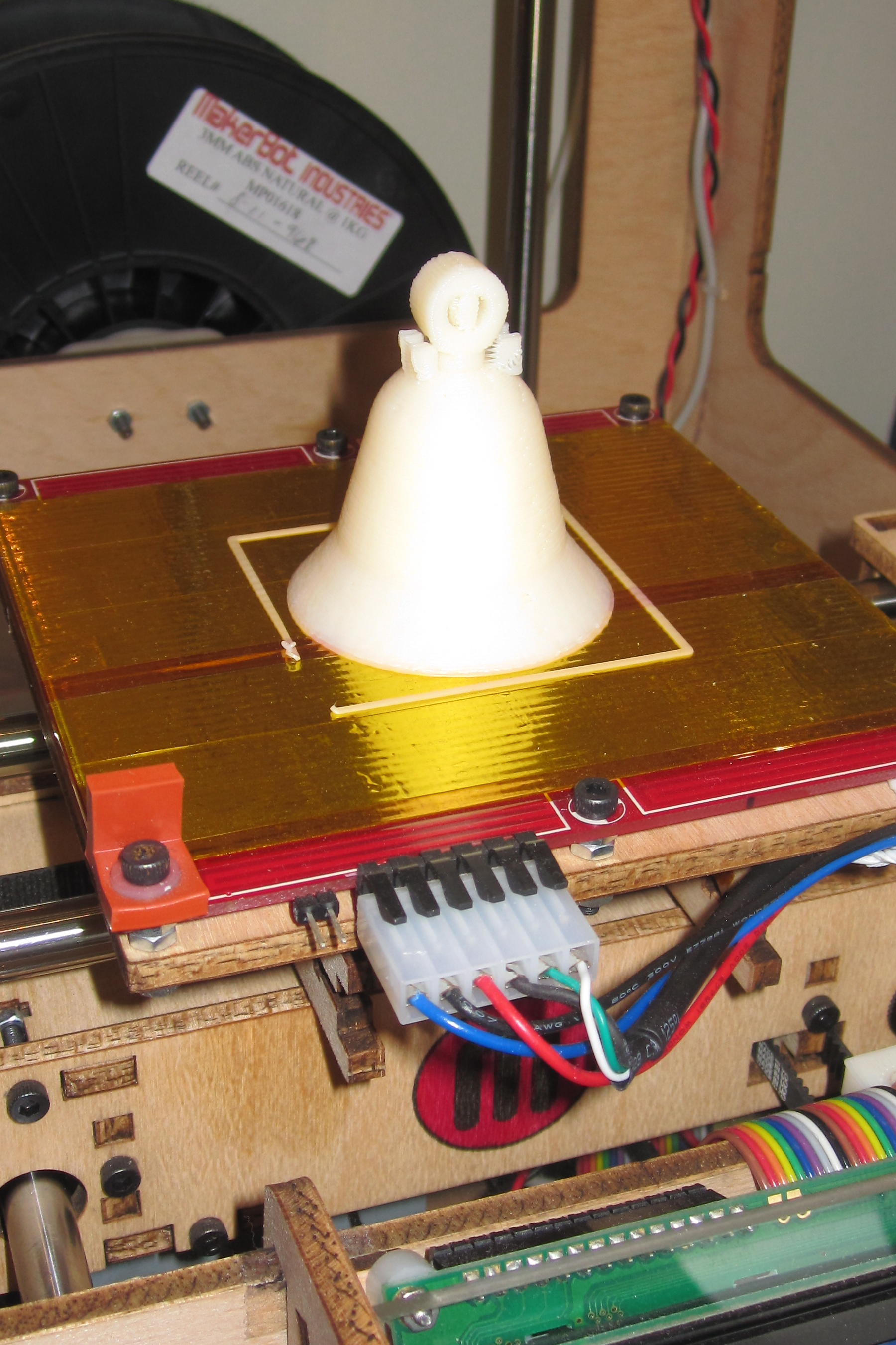 ABS Printed Bell on Makerbot ThingOMatic